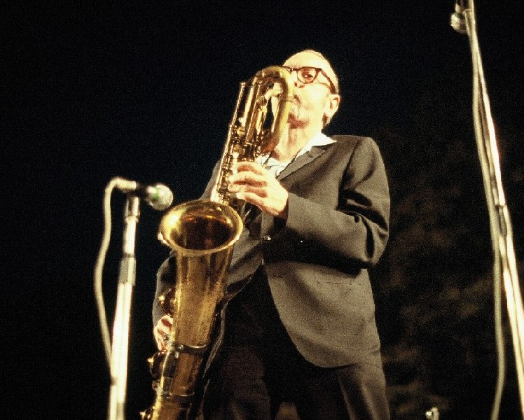 Pepper Adams performing at the Grande Parade du Jazz in Nice, France, 1978